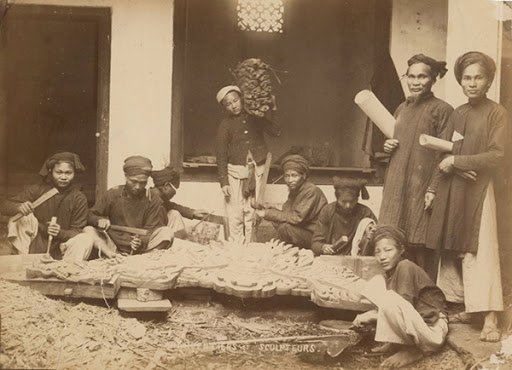 Vietnamese sculpture before 1945